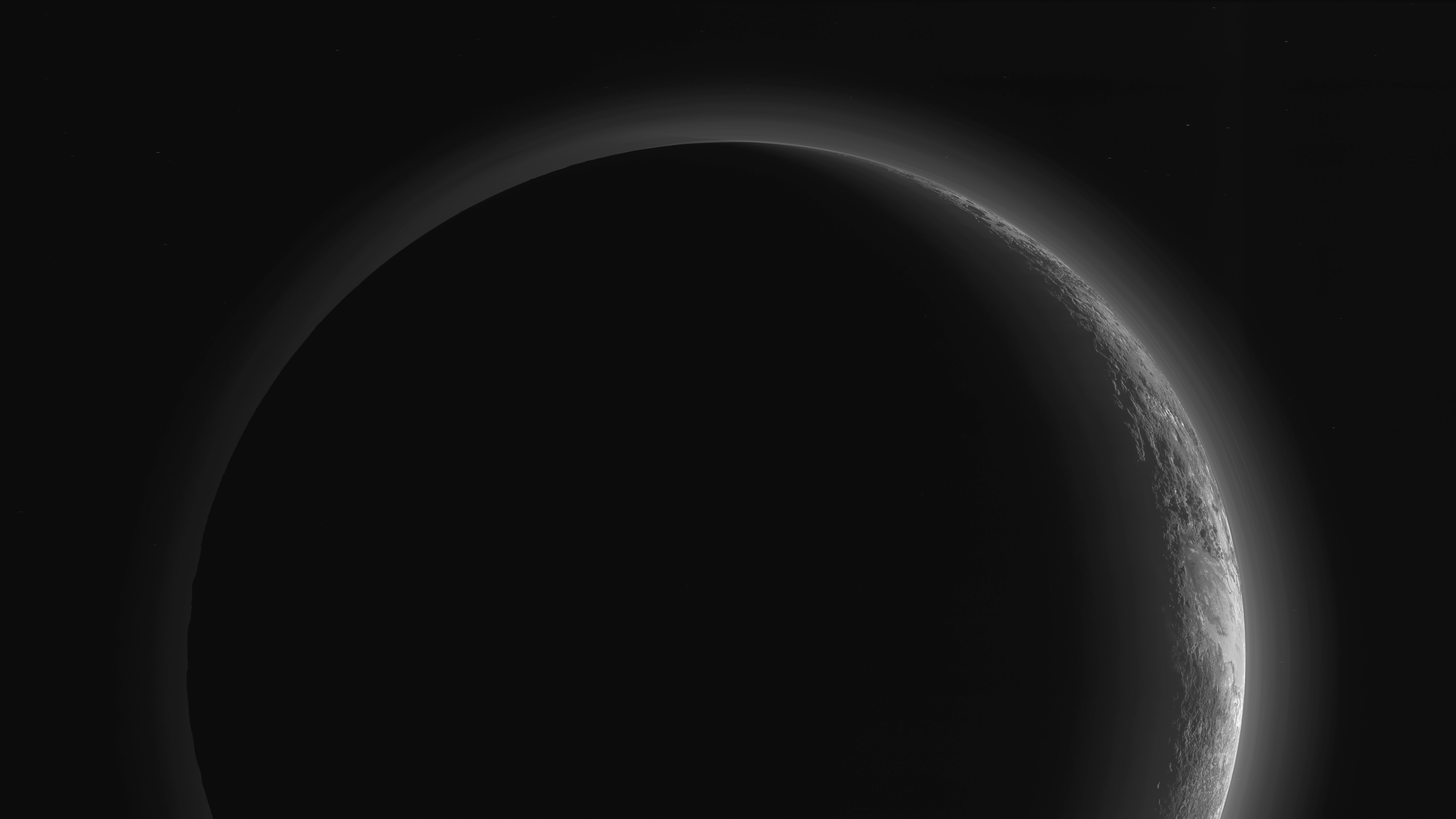 Pluto's crescent. This image was made just 15 minutes after New Horizons’ closest approach to Pluto on July 14, 2015, as the spacecraft looked back at Pluto toward the sun. =In September, the New Horizons team released a stunning but incomplete image of Pluto's crescent. Thanks to new processing work by the science team, New Horizons is releasing the entire, breathtaking image of Pluto. This image was made just 15 minutes after New Horizons' closest approach to Pluto on July 14, 2015, as the spacecraft looked back at Pluto toward the sun. The wide-angle perspective of this view shows the deep haze layers of Pluto's atmosphere extending all the way around Pluto, revealing the silhouetted profiles of rugged plateaus on the night (left) side. The shadow of Pluto cast on its atmospheric hazes can also be seen at the uppermost part of the disk. On the sunlit side of Pluto (right), the smooth expanse of the informally named icy plain Sputnik Planum is flanked to the west (above, in this orientation) by rugged mountains up to 11,000 feet (3,500 meters) high, including the informally named Norgay Montes in the foreground and Hillary Montes on the skyline. Below (east) of Sputnik, rougher terrain is cut by apparent glaciers. The backlighting highlights more than a dozen high-altitude layers of haze in Pluto's tenuous atmosphere. The horizontal streaks in the sky beyond Pluto are stars, smeared out by the motion of the camera as it tracked Pluto. The image was taken with New Horizons' Multi-spectral Visible Imaging Camera (MVIC) from a distance of 11,000 miles (18,000 kilometers) to Pluto. The resolution is 700 meters (0.4 miles).